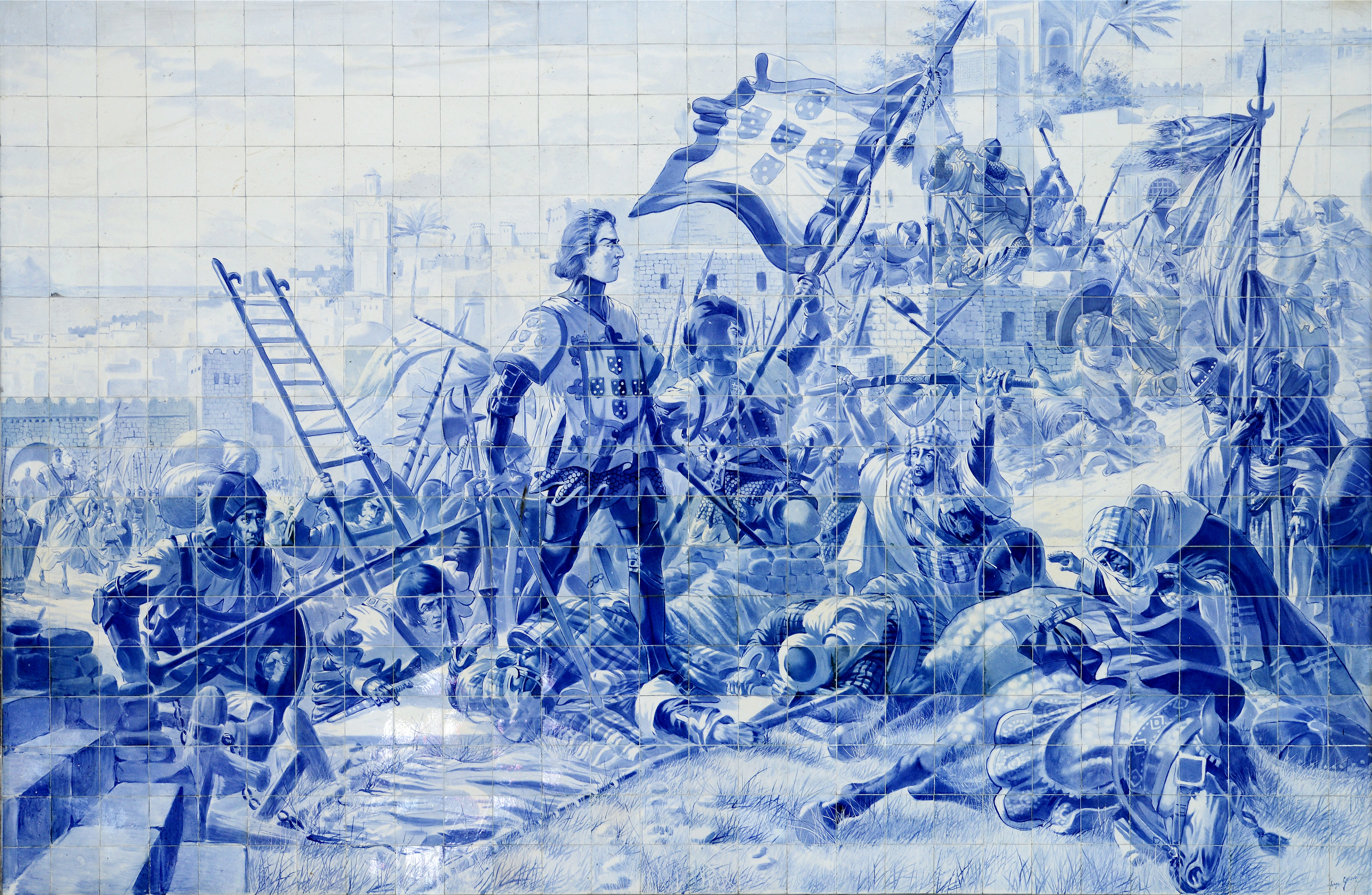 Panel of glazed tiles by Jorge Colaço, representing Prince Henry the navigator, in the conquest of Septa.